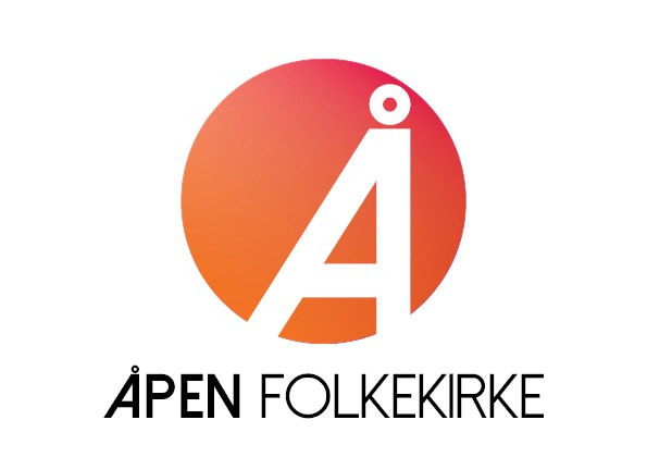 Official logo for the organization Åpen Folkekirke